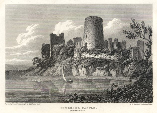 Image taken from please read for fair use